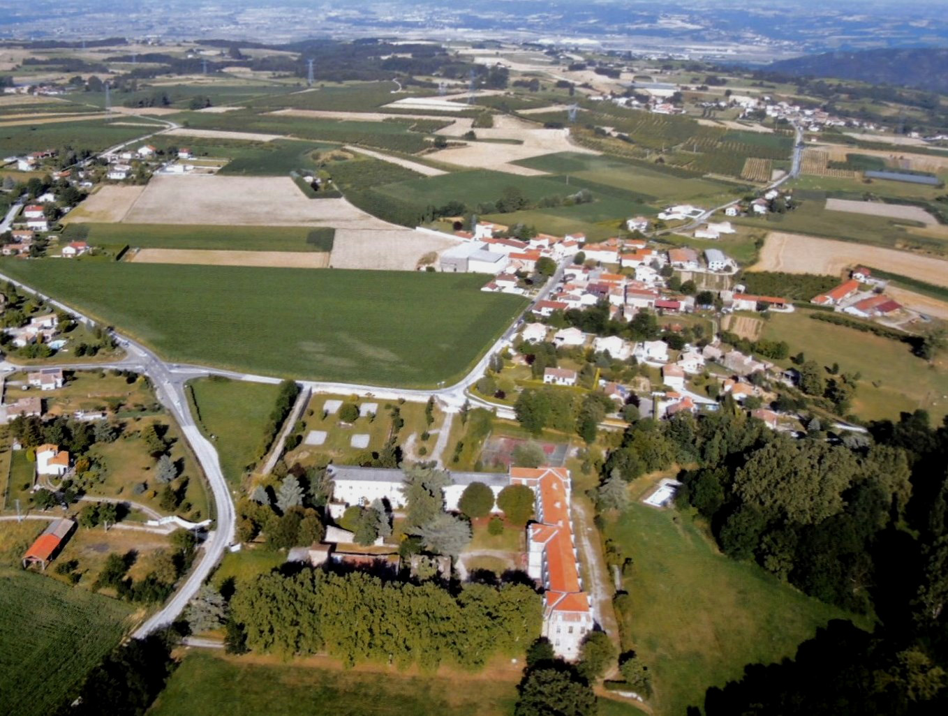 Colombier-le-Cardinal détail